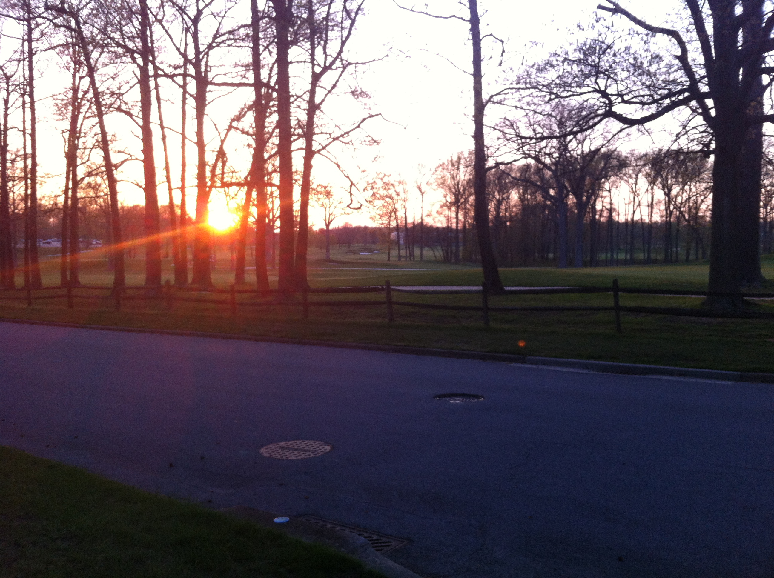 Sunset over DuPont Country Club in Woodbrook, Delaware, USA.